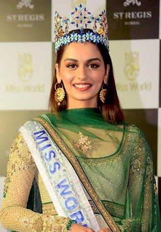 Manushi Chhillar at a press conference in 2017